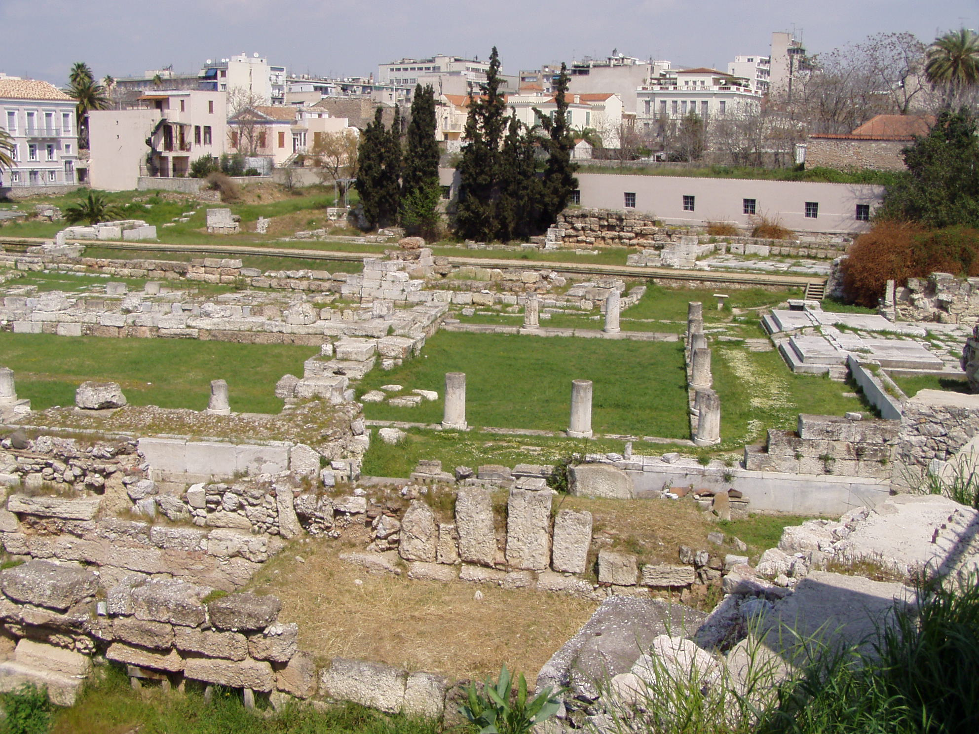 This is the Kerameikos in Athens.